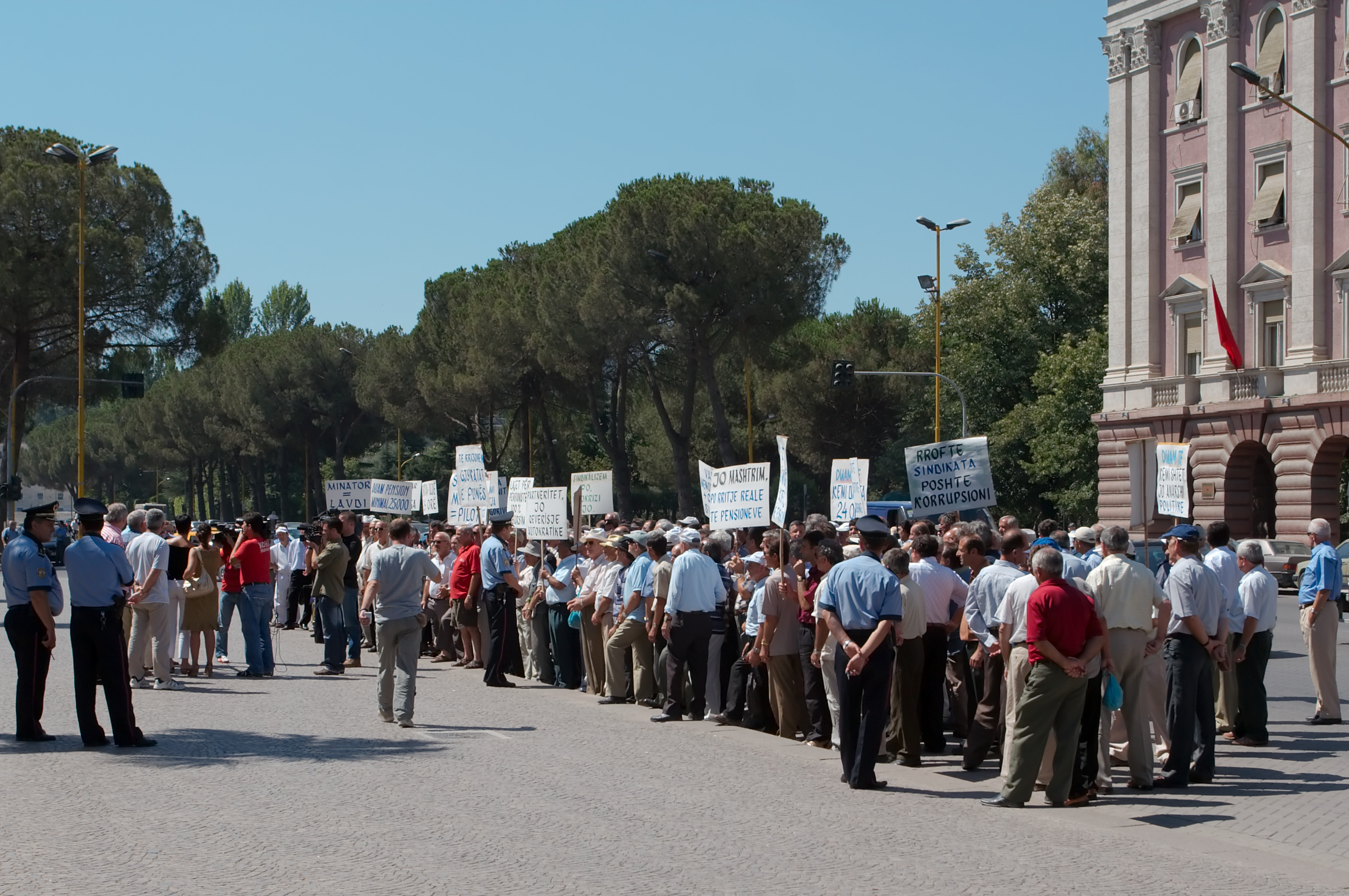 Albanian miners protesting over their working conditions, in front of the prime minister's office, taken in Tirana.